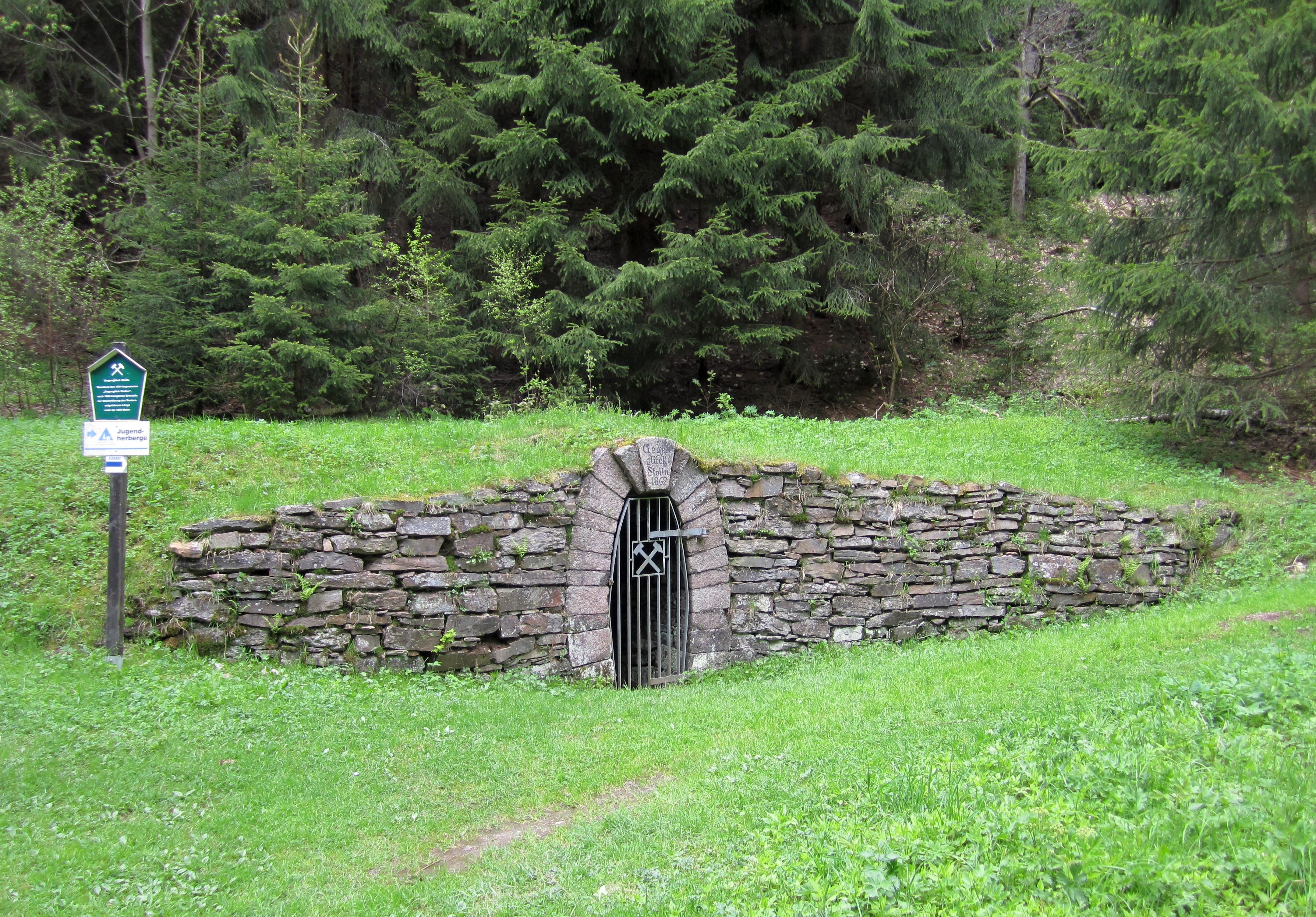 Adit mouth of "Gegenglueckstolln". Jugel, city of Johanngeorgenstadt, Saxony, Germany.